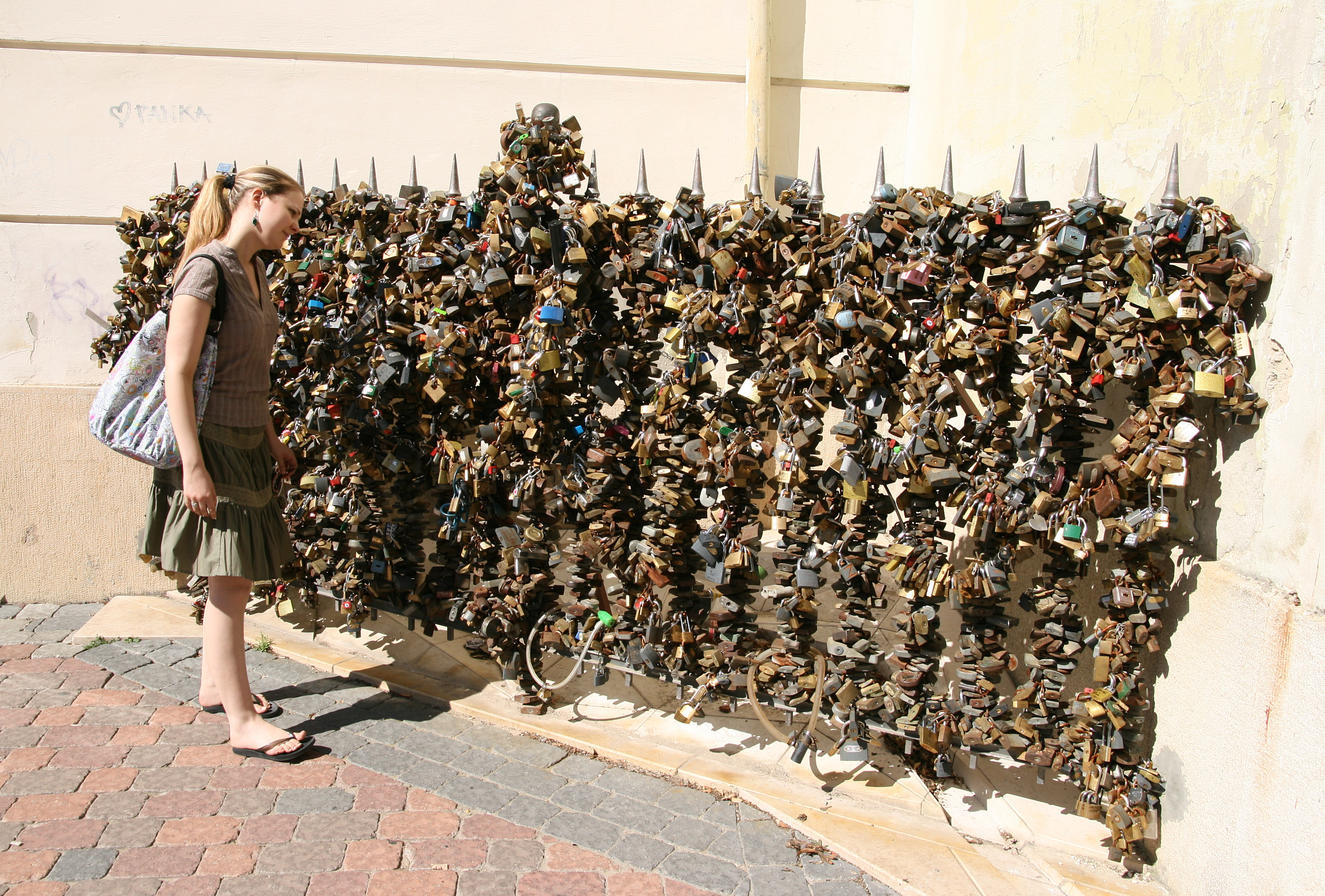 Locks of lovers